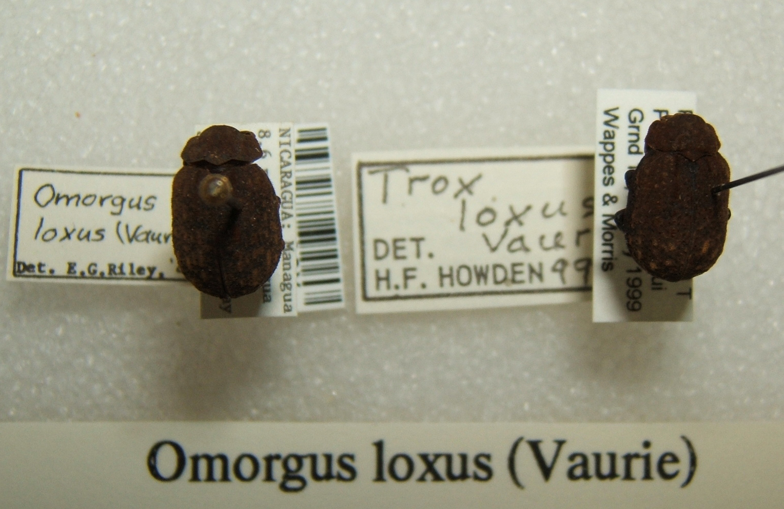 Omorgus loxus adult taken by Shawn Hanrahan at the Texas A&M University Insect Collection in College Station, Texas.